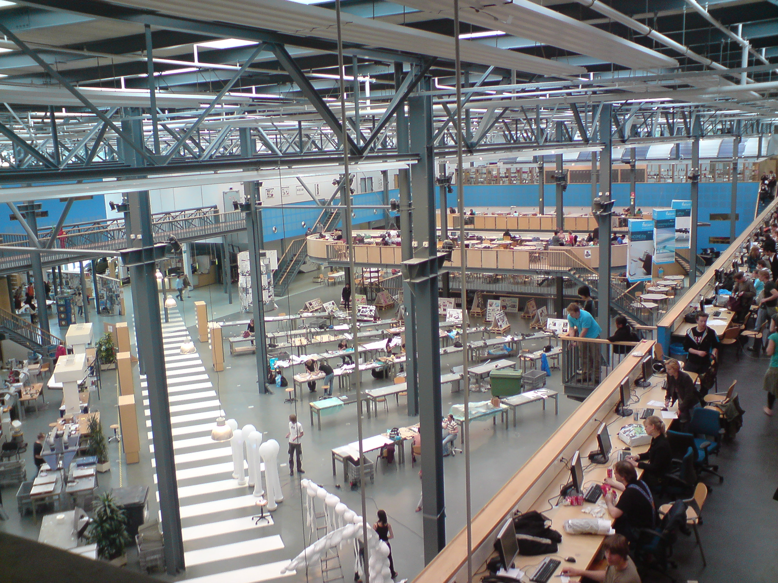 Industrial Design at TU Delft